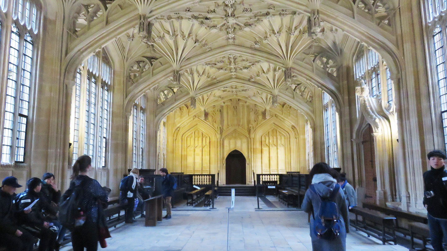 Divinity School, Bodleian Library